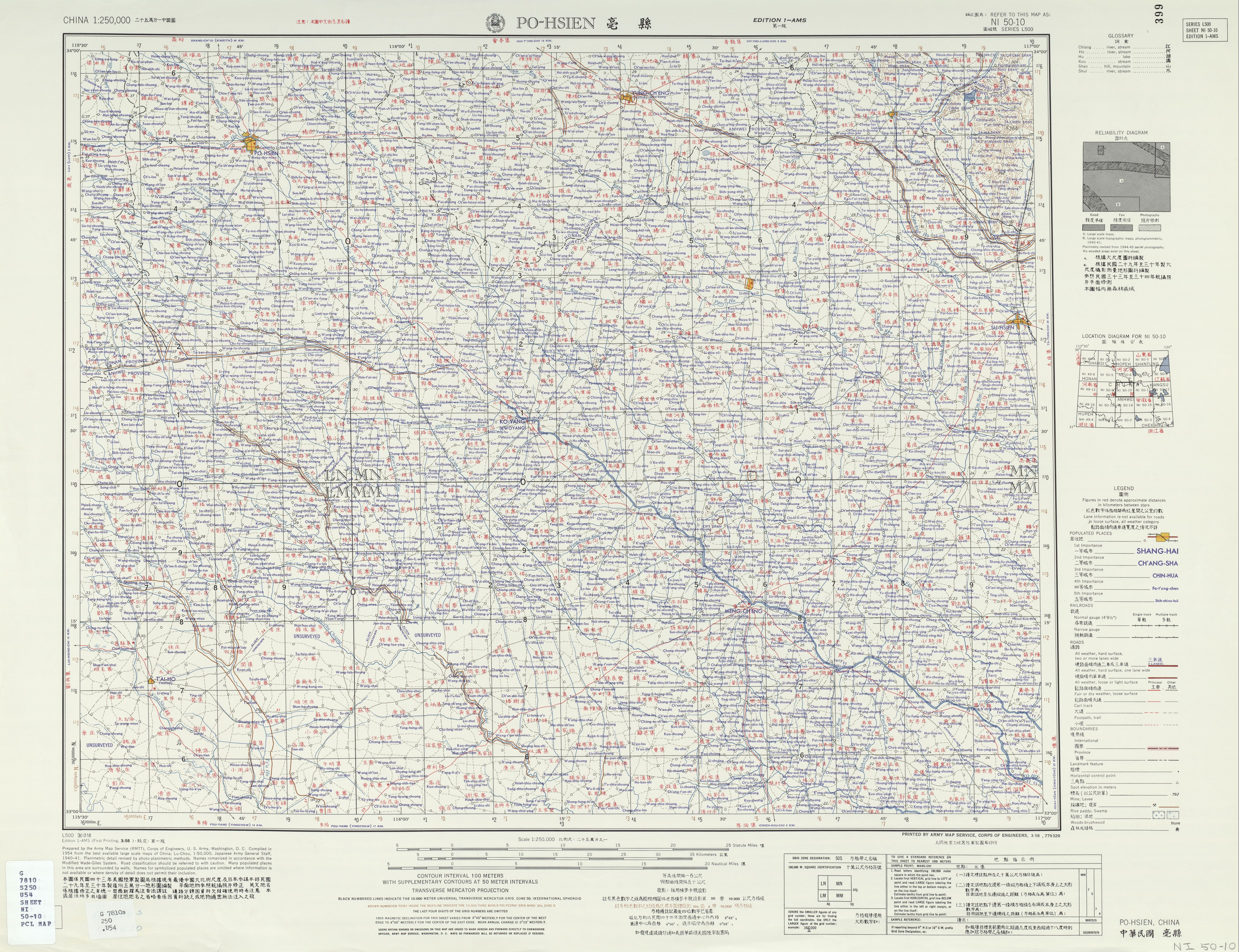 China AMS Topographic Maps